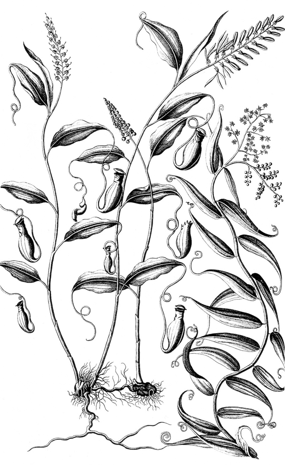 Cantharifera (?Nepenthes mirabilis) and Flagellaria indica from Rumphius's Herbarium Amboinensis, Volume 5, published in 1747, although probably drawn in the late 17th century.